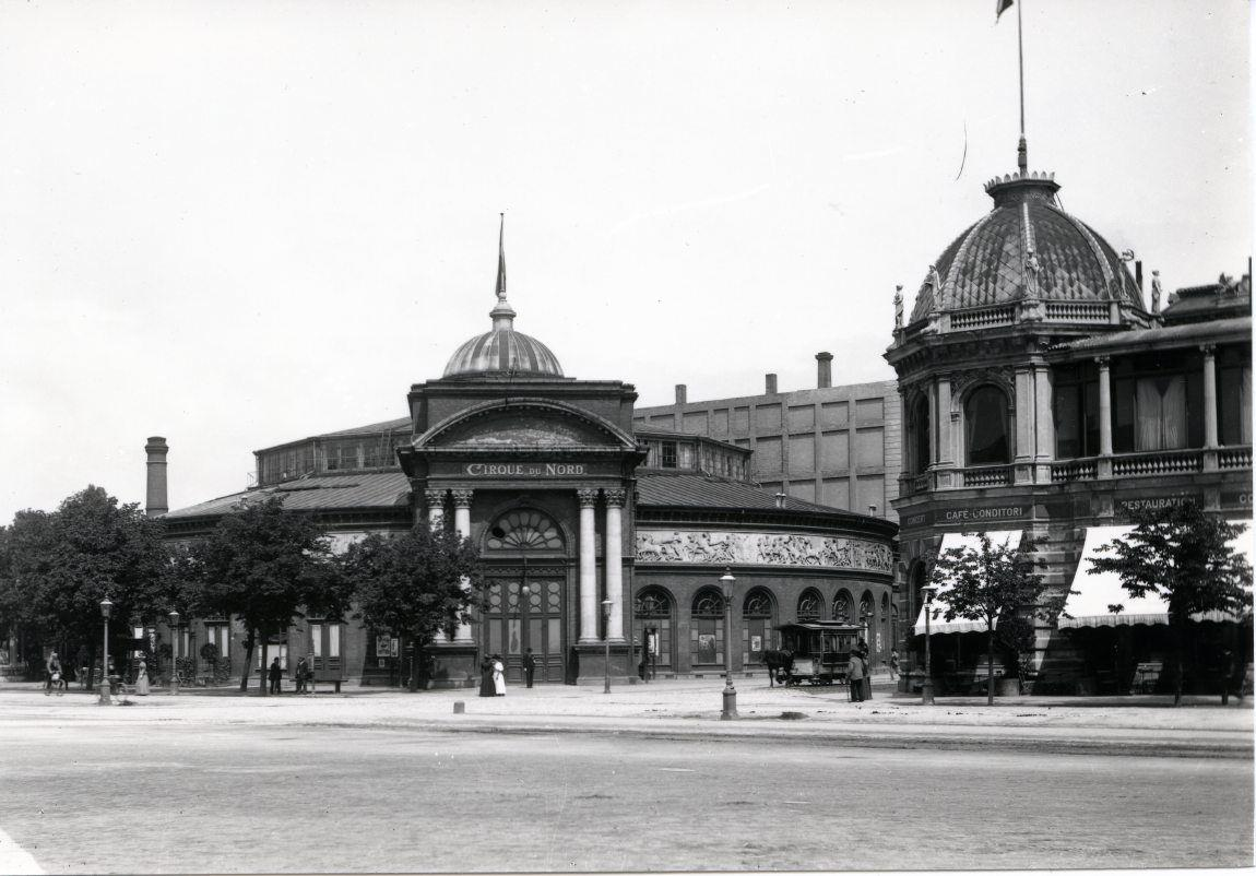 The Cirkus Building in Copenhagen, Denmark